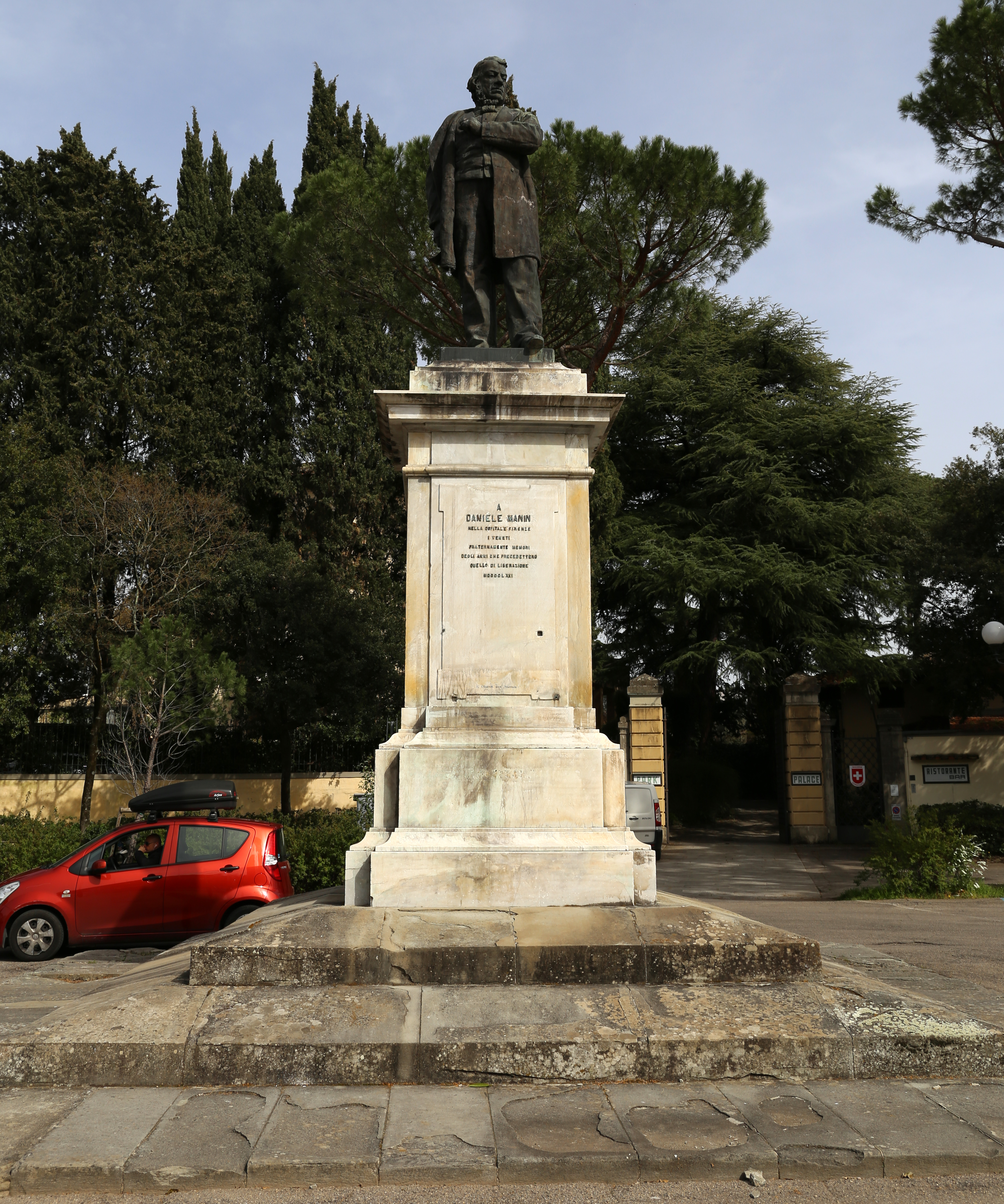 Bobolino